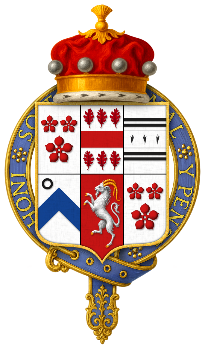 Coat of arms of Sir Thomas Darcy, 1st Baron Darcy of Chiche, KG Quartering based on the Chancel North window in the church of St Peter and St Paul, St Osyth, Essex, as follows: 1 and 6) argent, three cinquefoils gules (Darcy) 2) argent, a fess between six oak leaves gules (Fitzlangley) 3) argent, a fess ermine between two bars gemmels sable (Harleston) 4) argent, a chevron azure, and in the dexter chief an annulet sable (Wauton) 5) gules, a goat saliant argent, armed or (Berdewell)